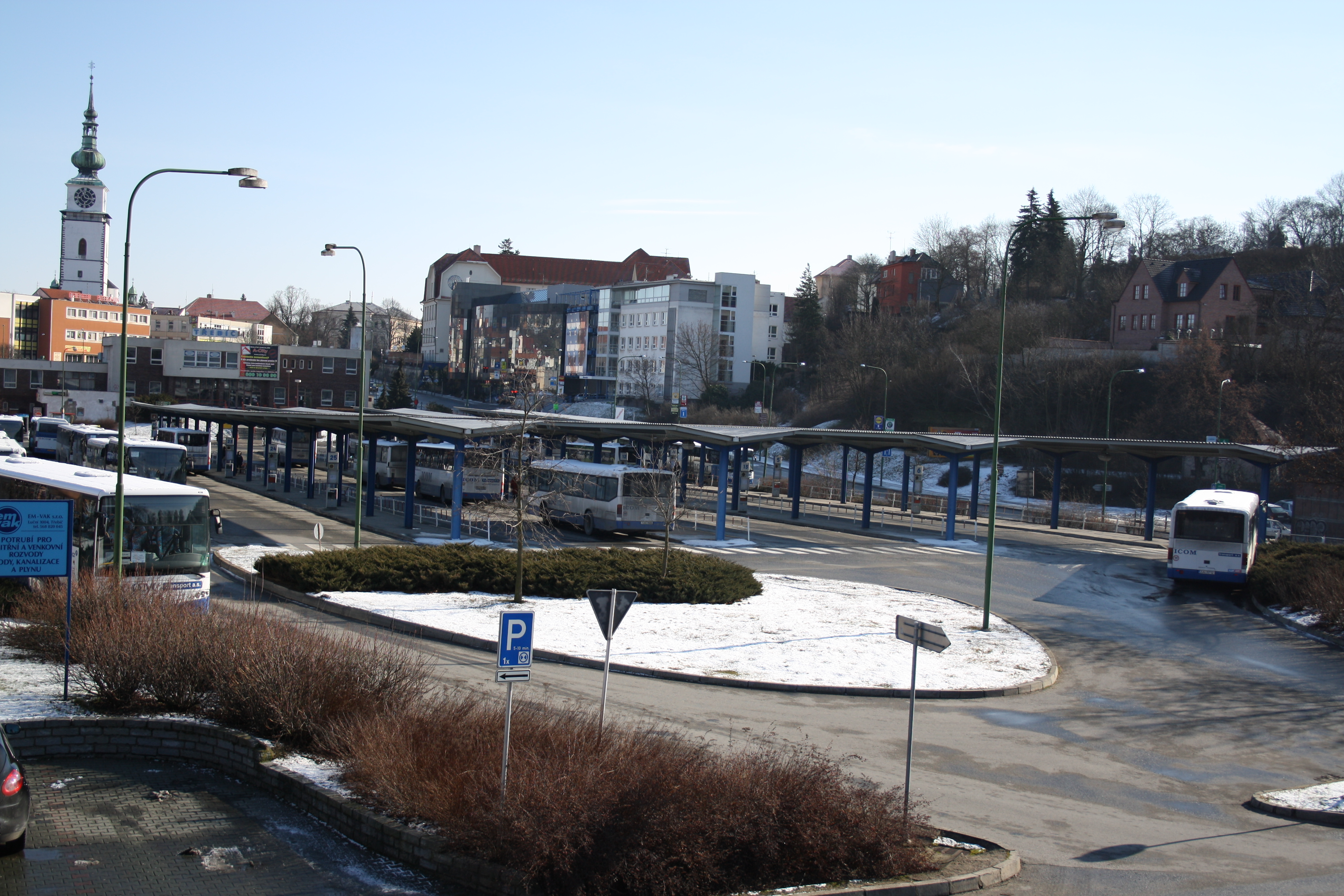 Bus station in Vysočina's city Třebíč, west view.